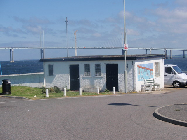 South Kessock's "Dolphin Point". This building houses a small shop and tearoom, normally open on a Sunday (but not today) for dolphin watchers.